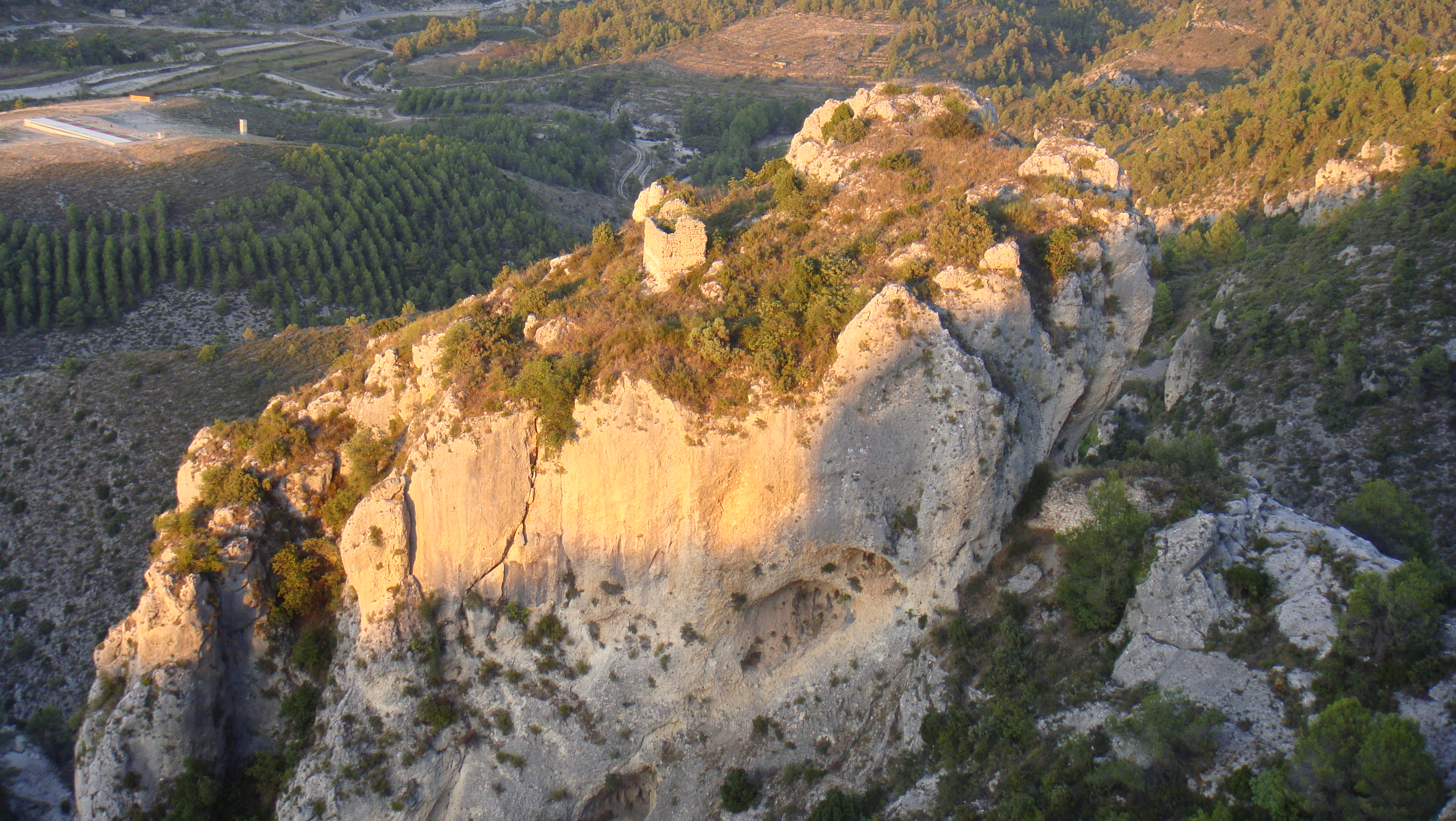 The Castle of Margarida at sunset. 26.106-014.